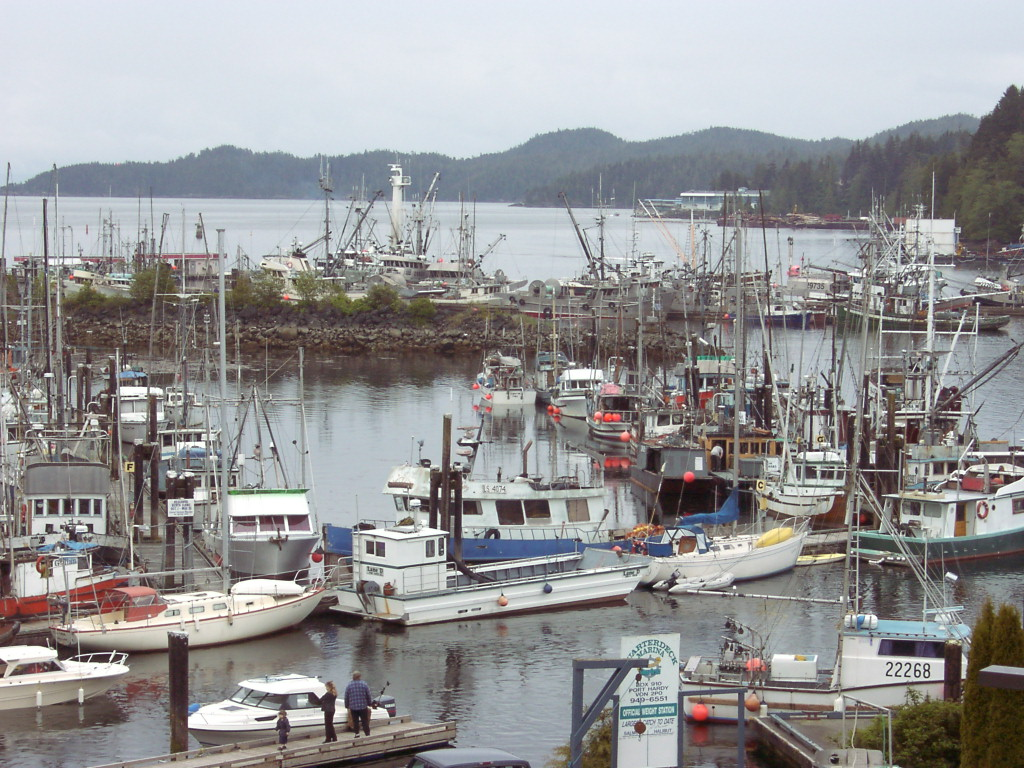 harbor at Port Hardy, north end of Vancouver Island, BC